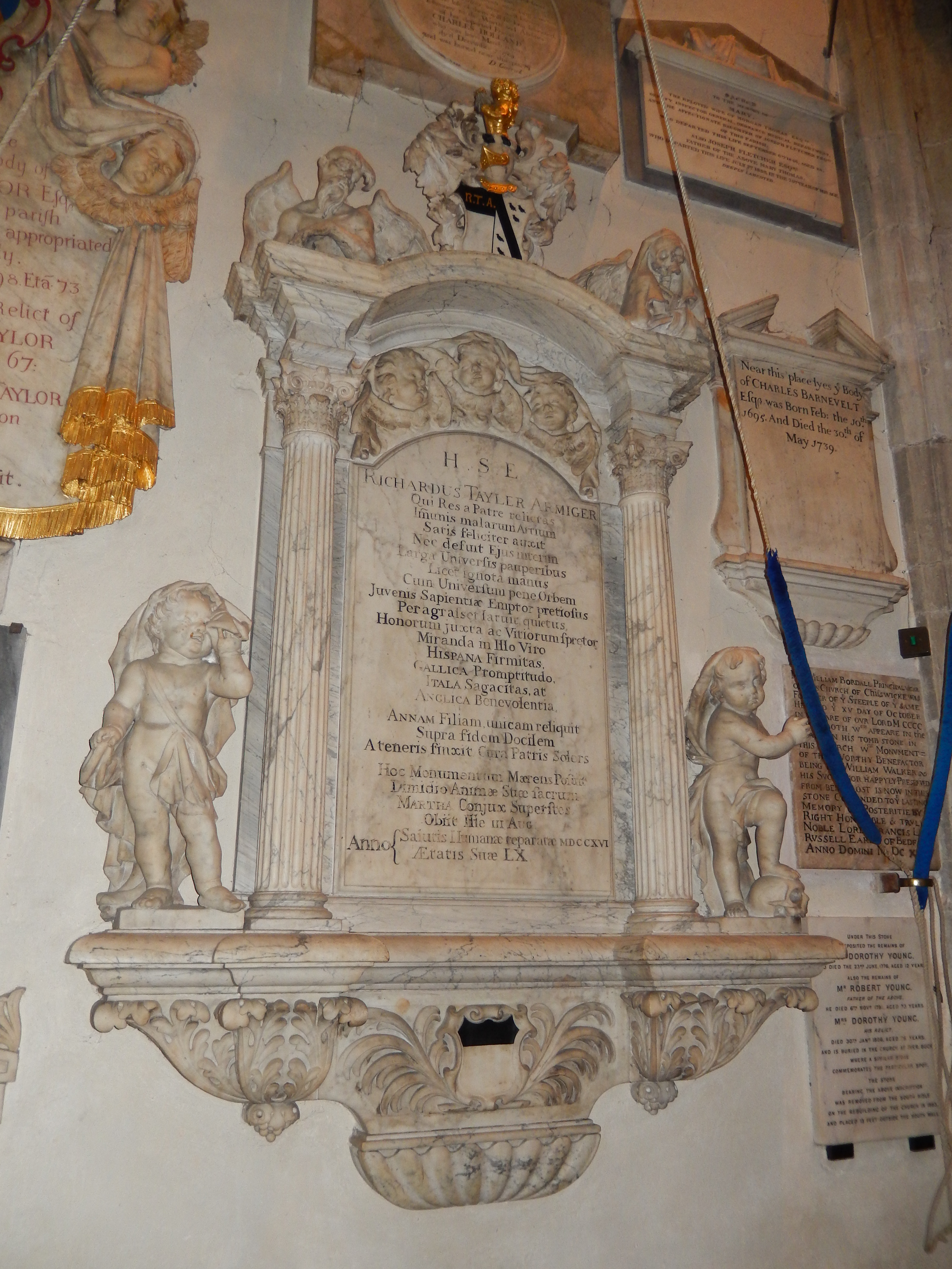 Richard Taylor memorial St Nicholas Chiswick 1716